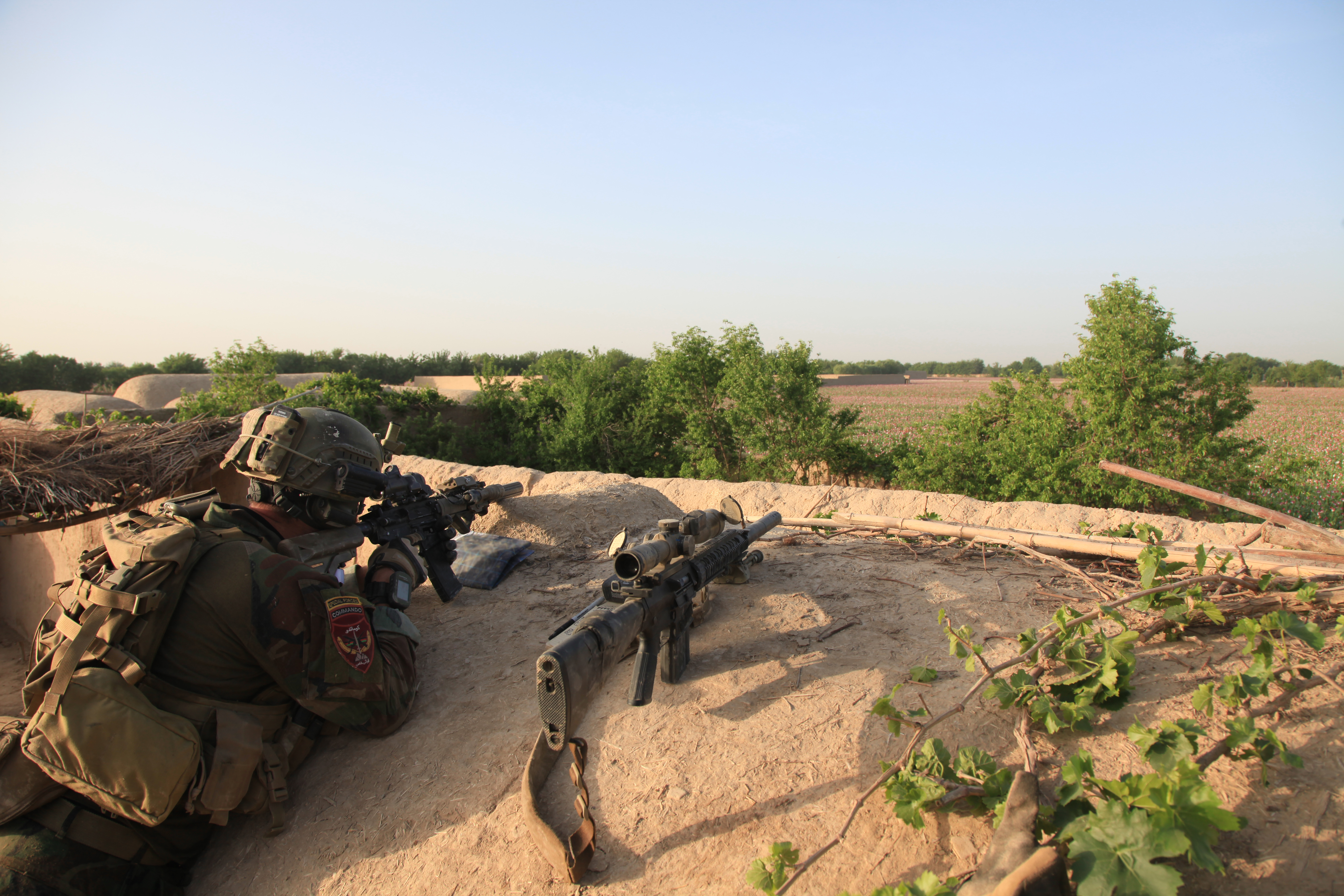 A Marine with U.S. Marine Corps Forces, Special Operations Command waits in ambush for insurgents during a joint patrol with Afghan National Army Special Forces soldiers in Nahr-e Saraj district, Helmand Province April 3. Marines with MARSOC's 1st Marine Special Operations Battalion recently returned from a nine-month deployment to Afghanistan, where they commanded the Special Operations Task Force - West and oversaw one of Afghanistan's bloodiest regions. (U.S. Marine Corps photo by Cpl. Kyle McNally/Released)